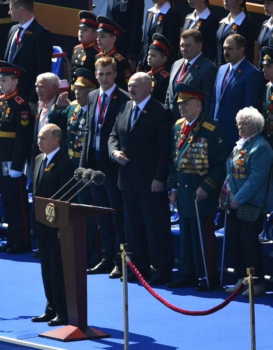 2020 Moscow Victory Day Parade Аҧсшәа: Военный парад на Красной площади в Москве 24 июня 2020 года